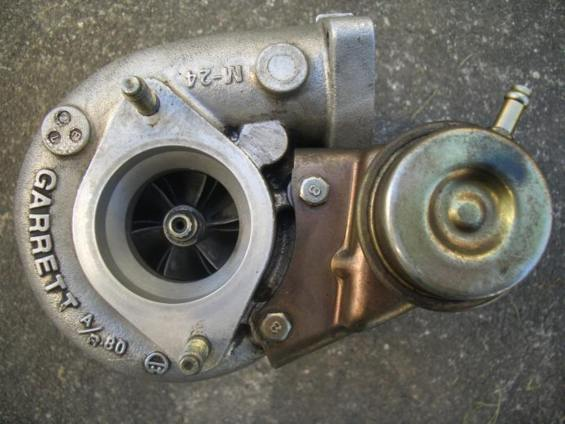 Image of a Garret T25g turbo. Gained from with express written consent gained from the user who uploaded the files. Note that some people may incorrectly refer to this turbo as an M-24 because of the embossing you can see on the turbo, however it is actually a T25g.